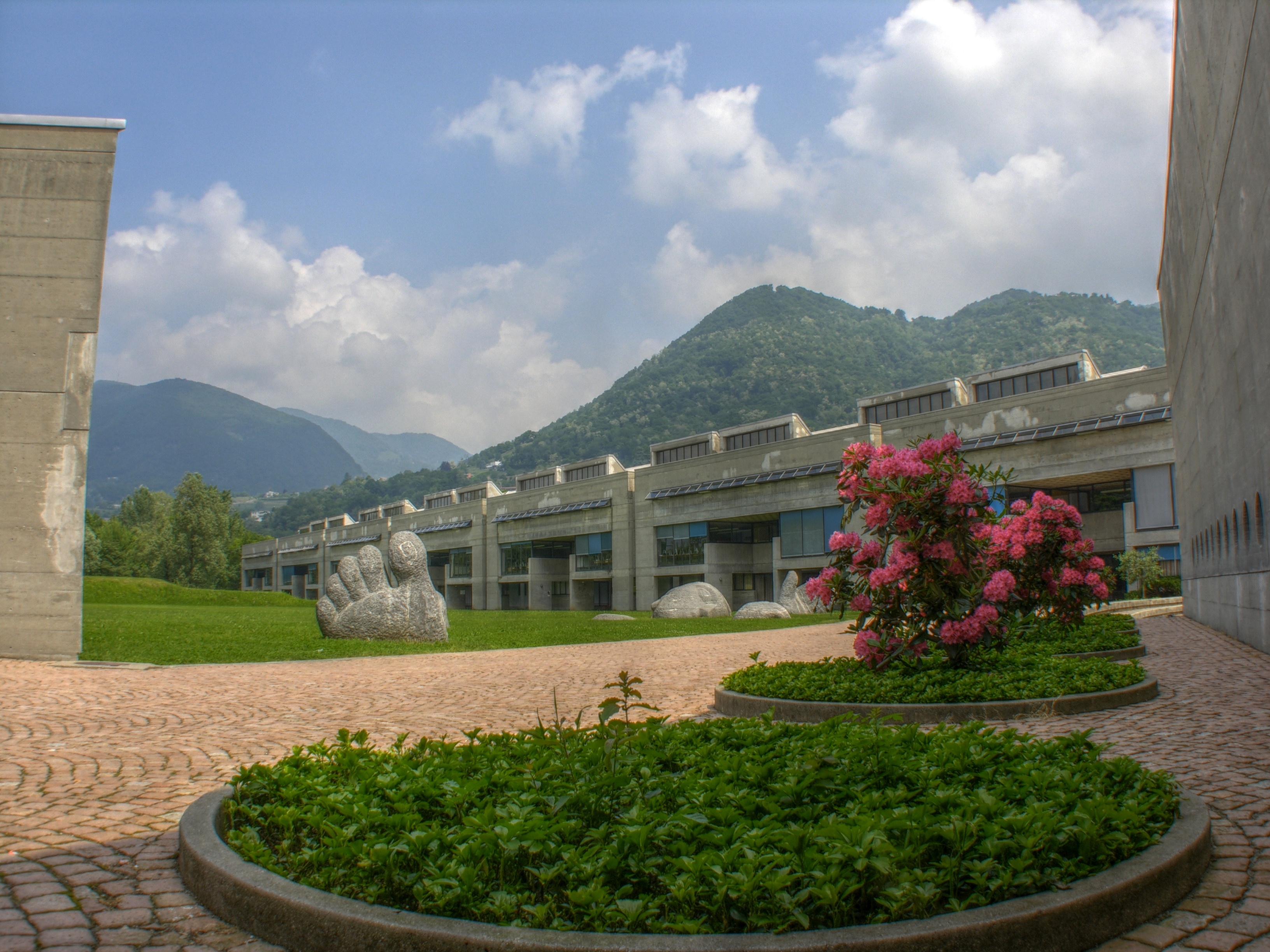 Morbio Inferiore, Tessin, Switzerland, School - The surroundings of the Pierino Selmoni sculpture